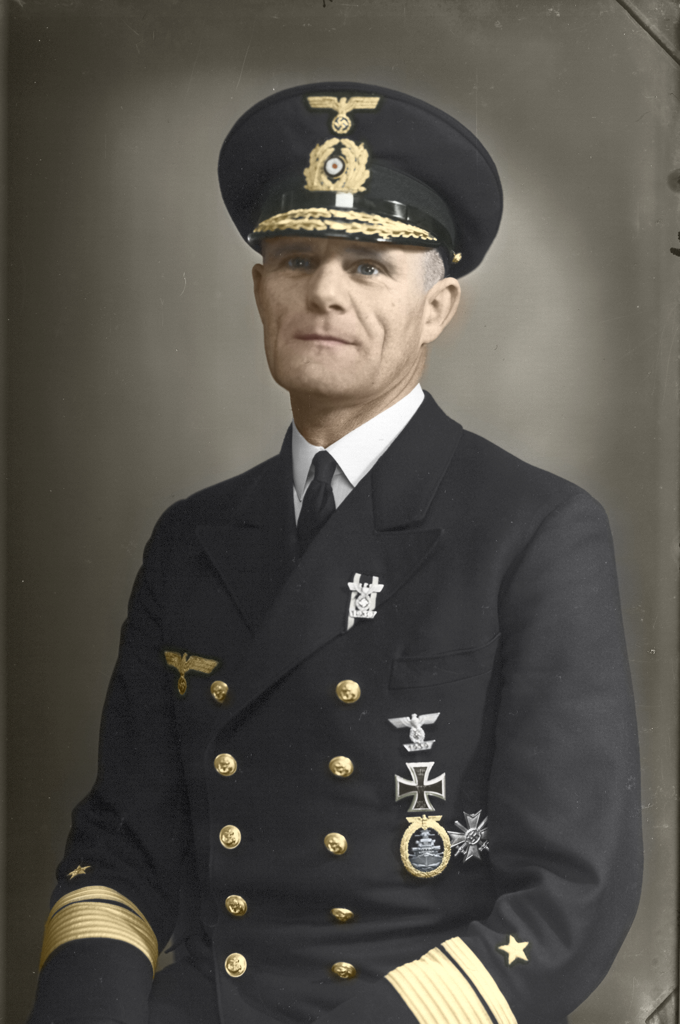 This is a retouched picture, which means that it has been digitally altered from its original version. Modifications: recolored by User:Ruffneck88. == Recolored Version of this image genutztes Programm Recolored v1.1. Description